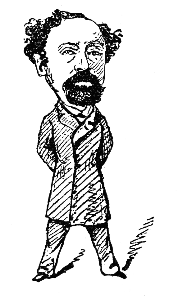 John Hollingshead, Theatrical impresario, in a small illustration by Alfred Bryan. It came at the end of an article by Hollingshead in the Entr'acte, discussing Henry Irving.